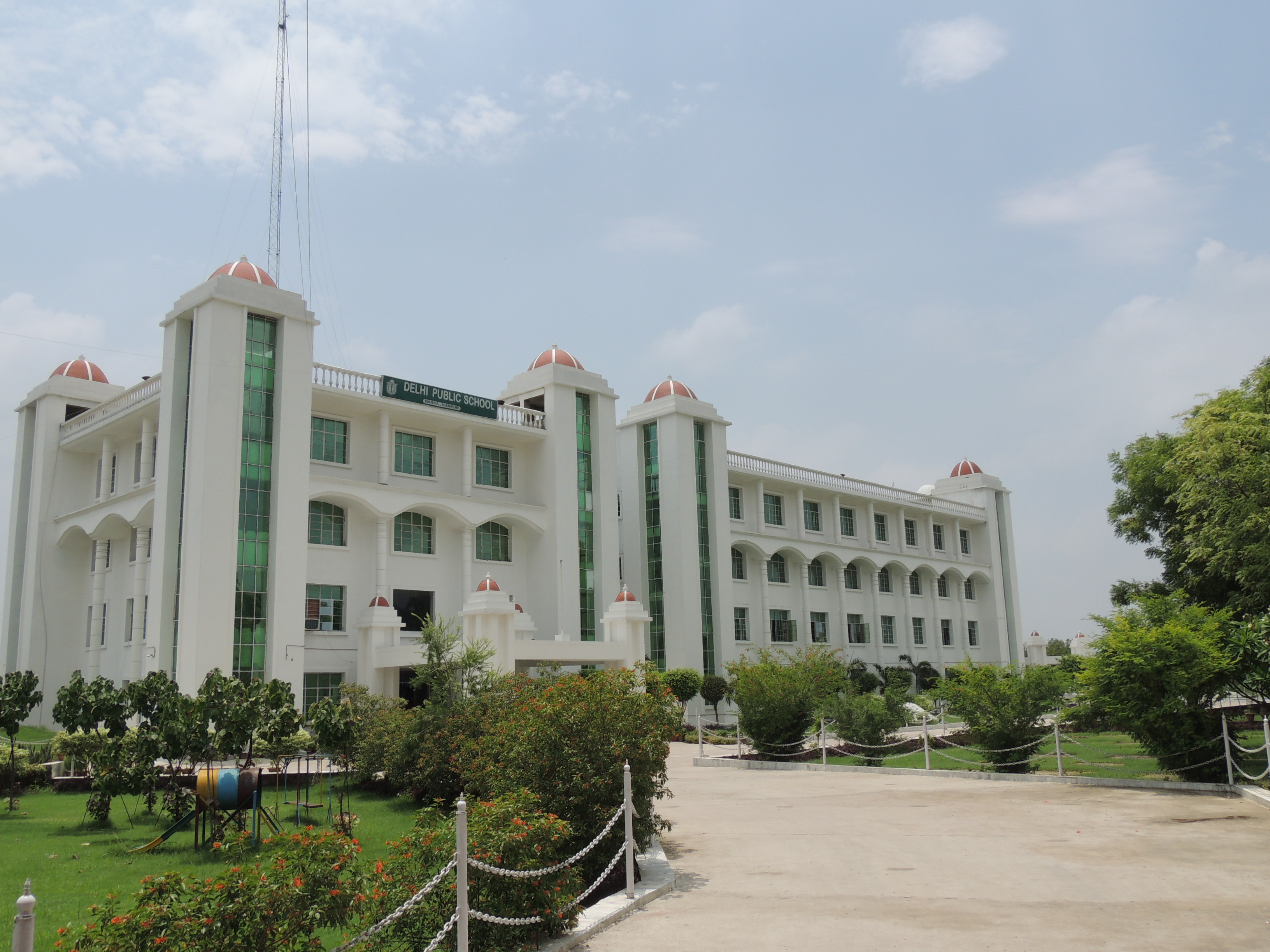 DPS Barra